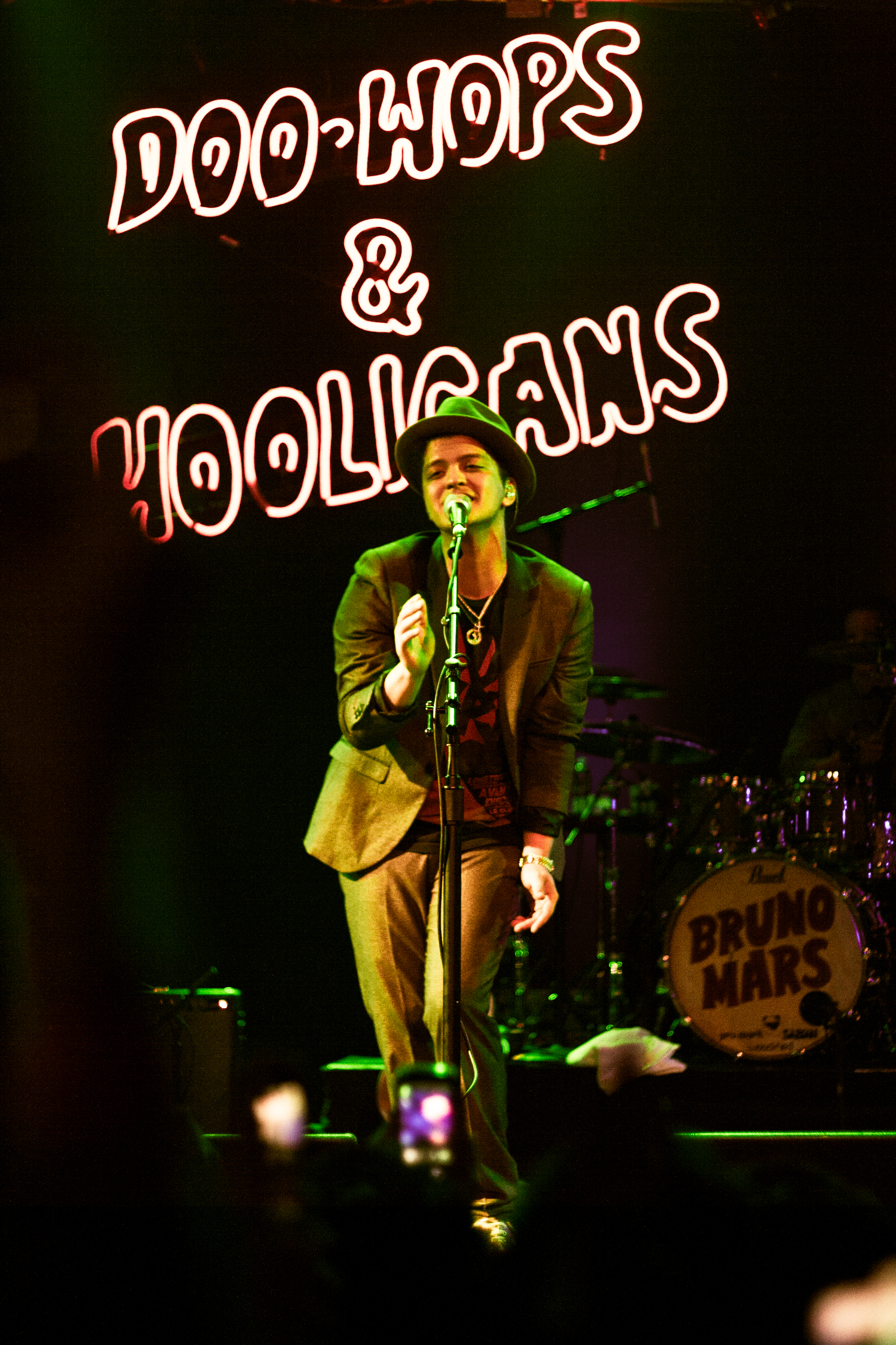 Warehouse Live